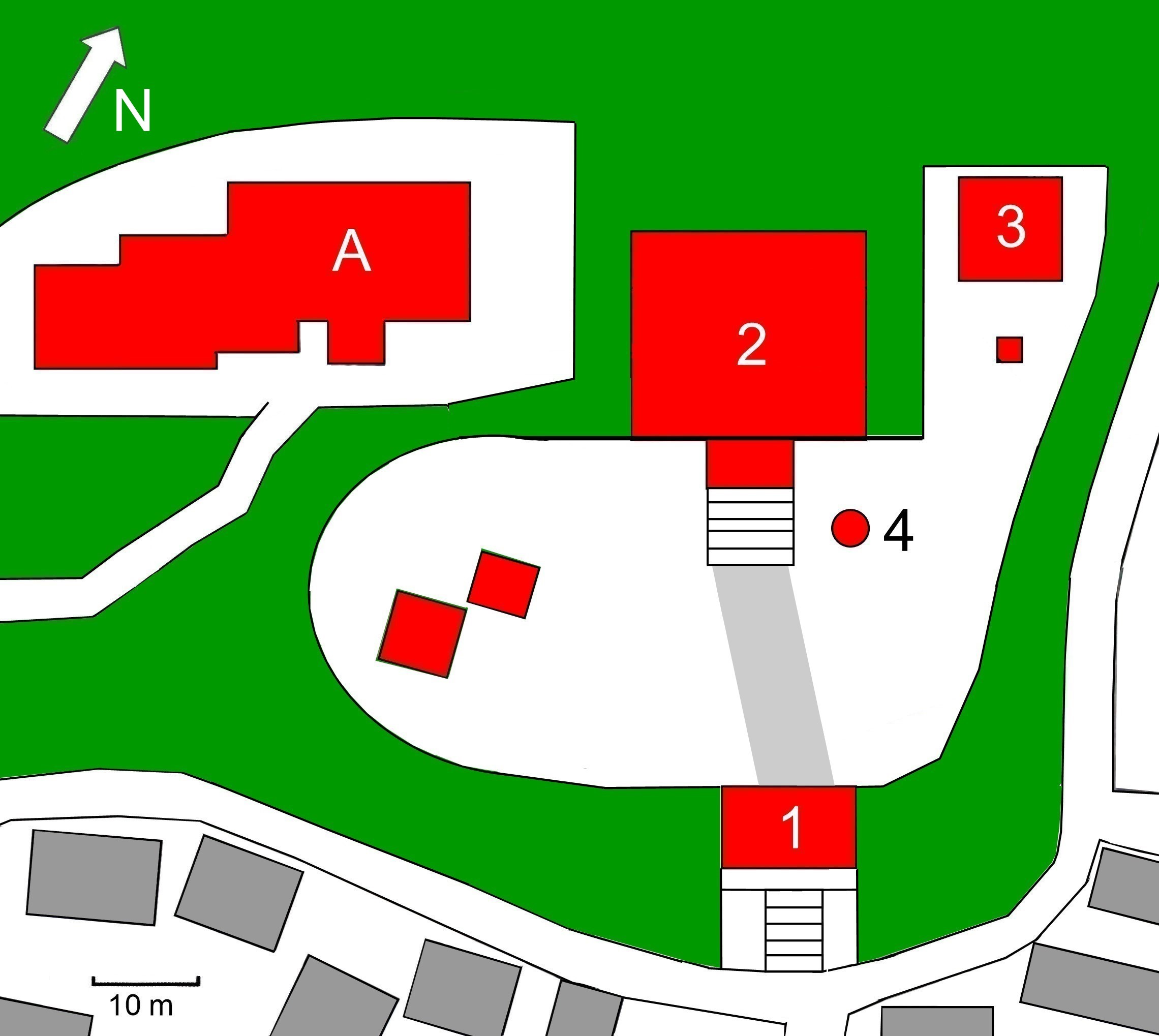 Layout of Anraku-ji (Saitama), Japan